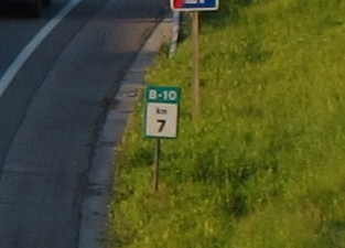 B-10